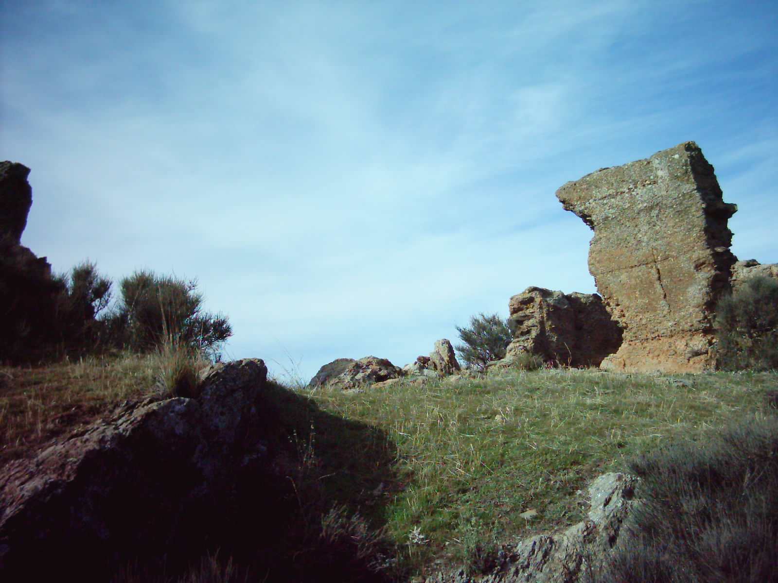 Castillejo de Abrucena